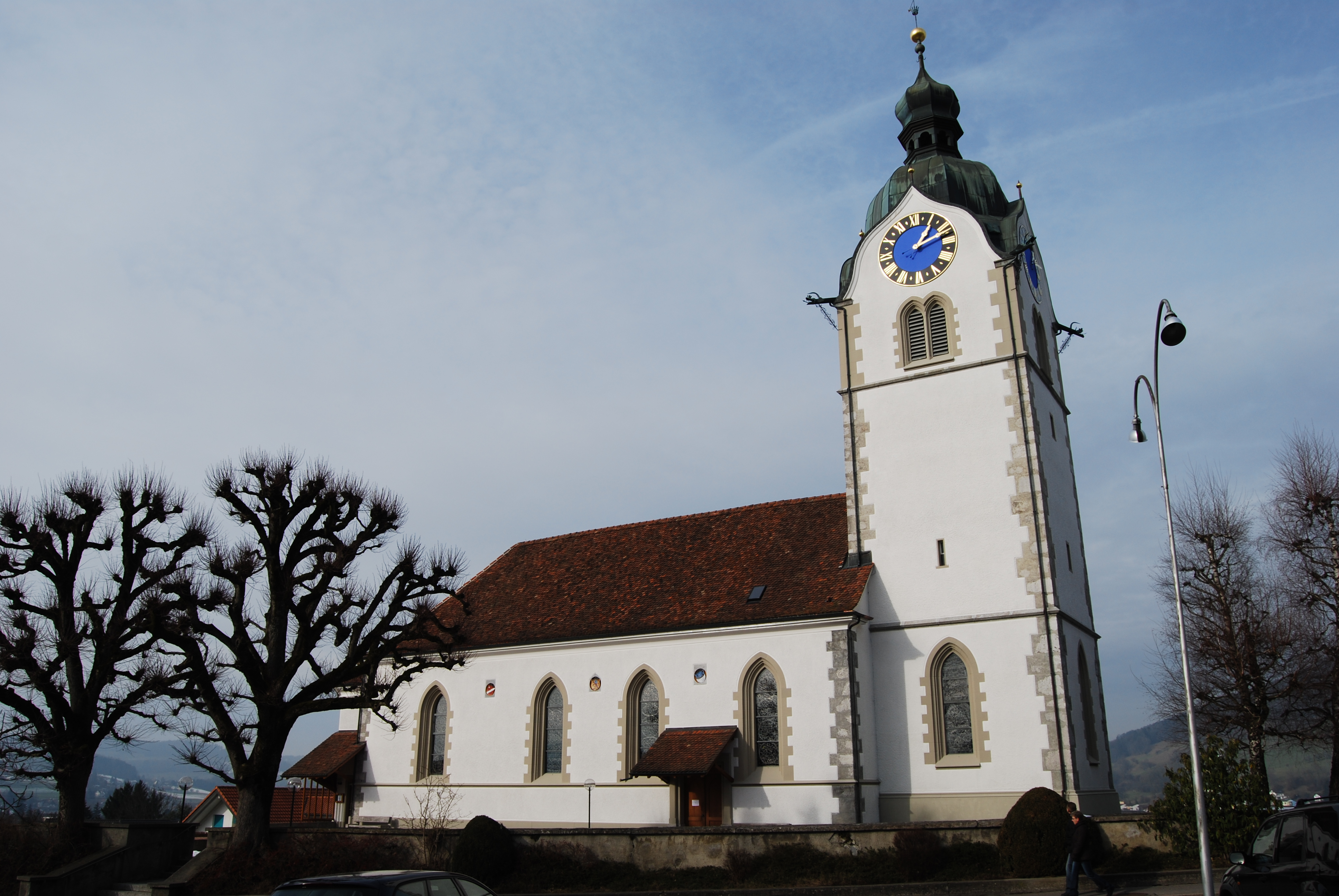 Church of Reinach, canton of Aargau, SwitzerlandEsperanto: Preĝejo de Reinach, Kantono Argovio, Svislando